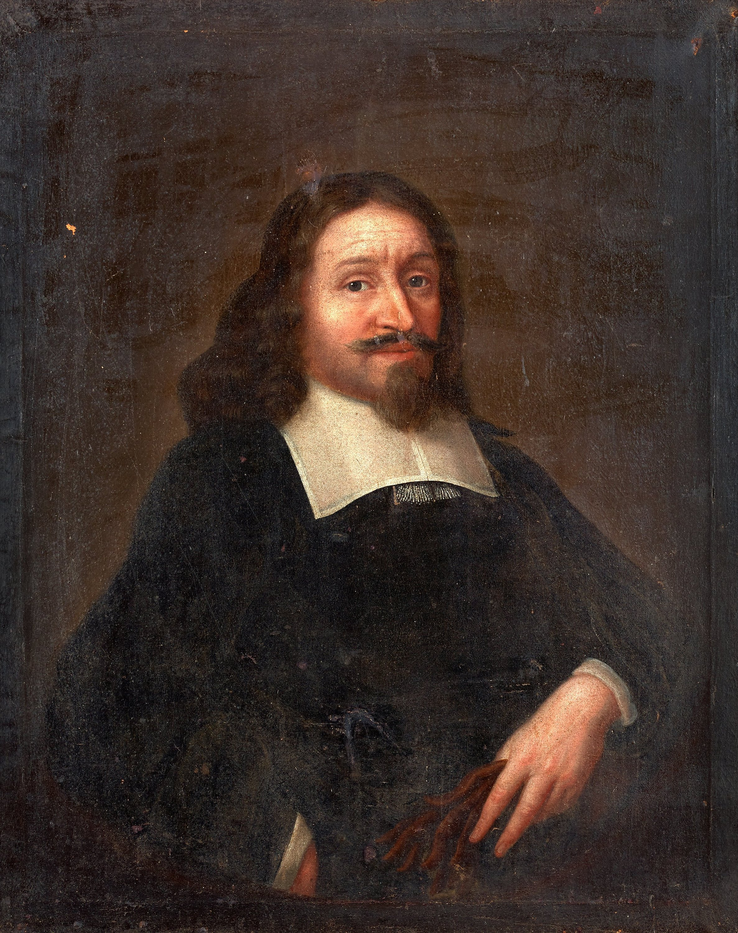 Bishop Jesper Swedberg, 1653-1735. Painting probably by David Klöcker Ehrenstrahl.